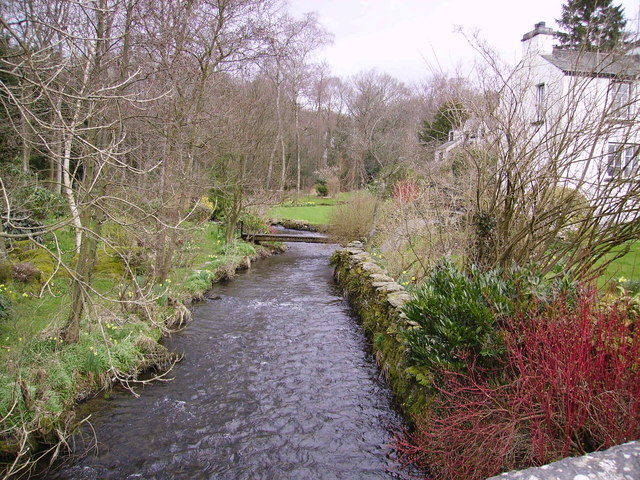 Lords Bridge over River Gilpin At Crosthwaite